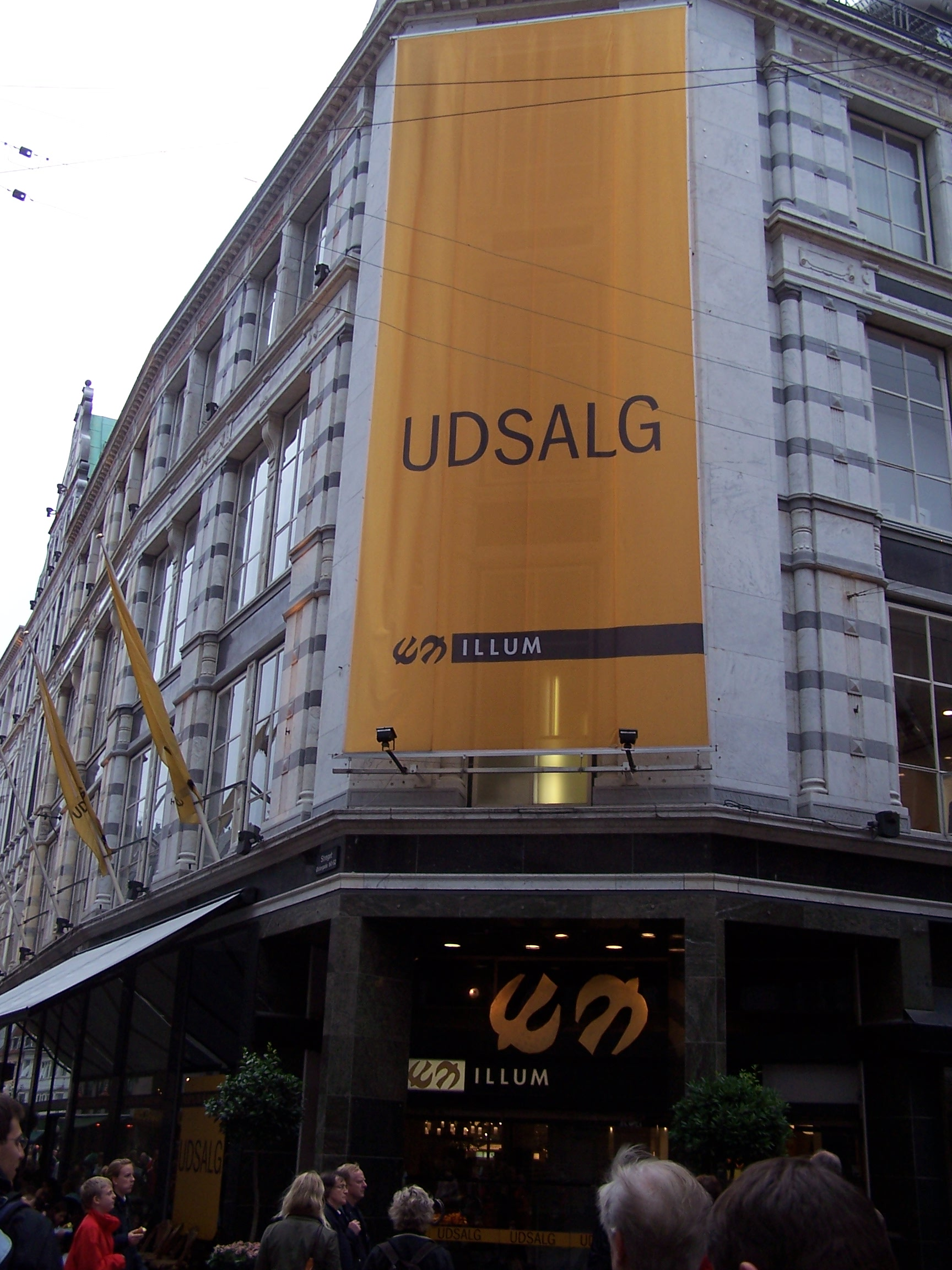 Illum, Copenhagen.